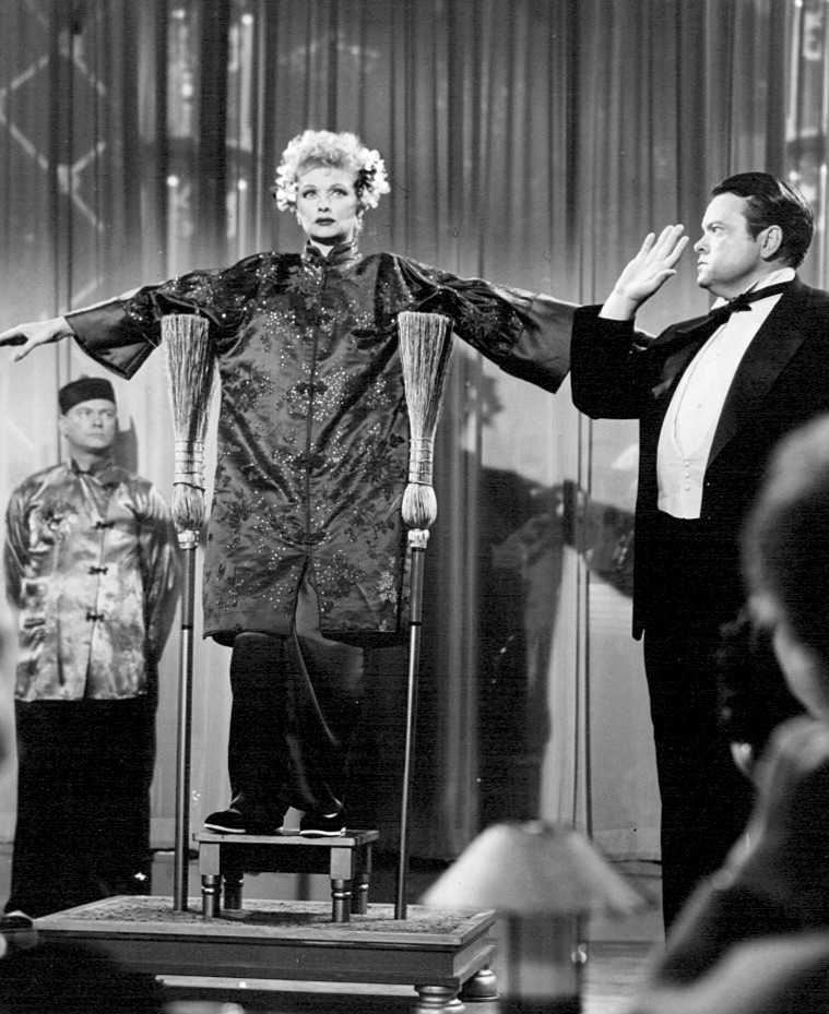 Photo of Lucille Ball and Orson Welles from I Love Lucy. Lucy becomes part of Orson Welles' magic act.